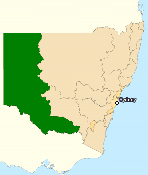 This image incorporates data that is: © Commonwealth of Australia (Australian Electoral Commission) 2009 Division of Farrer 2010